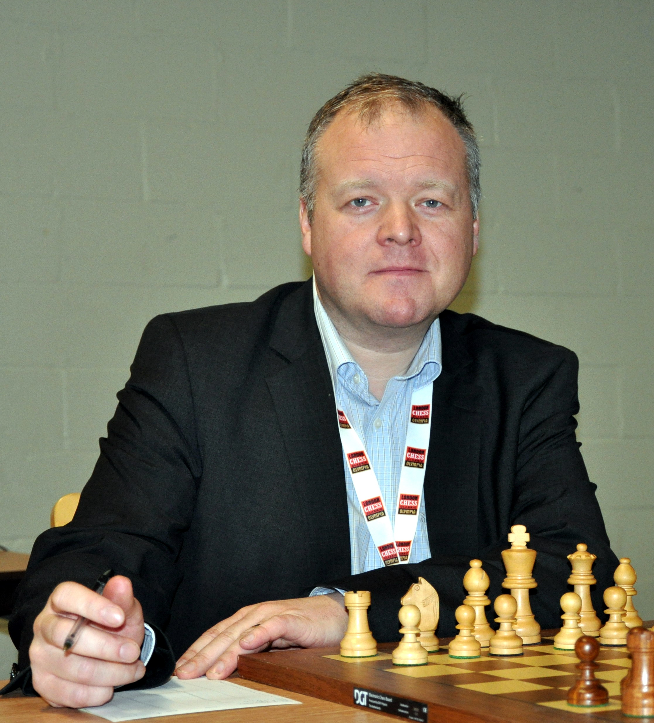 Throstur Thorhallsson - London Chess Classic 2010